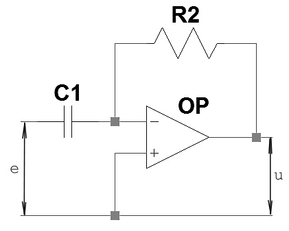 Regulator diferencijalnog dejstva